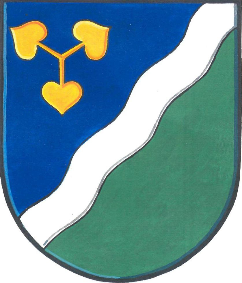 Coat of amrs of Dvory , District Nymburk, Czech Republic